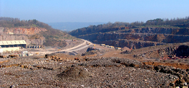 Stancombe Quarry. This quarry manages to hide itself away from view from almost every direction. It is a huge hole in the ground, producing Carboniferous Limestone, mainly for use on the roads.